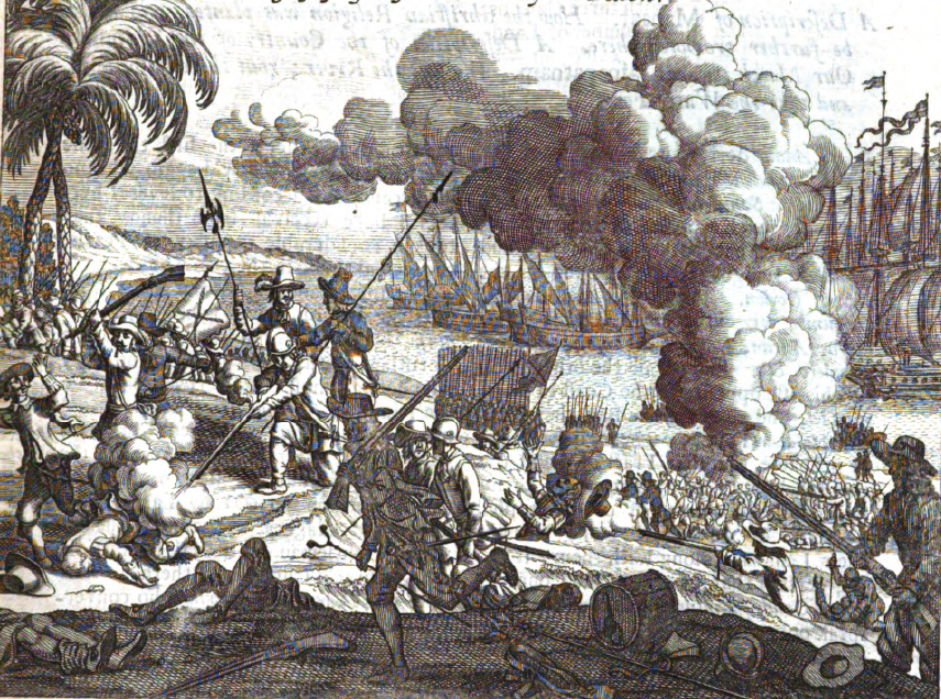 Dutch troops attack Portuguese forces during the Battle of Mannar.